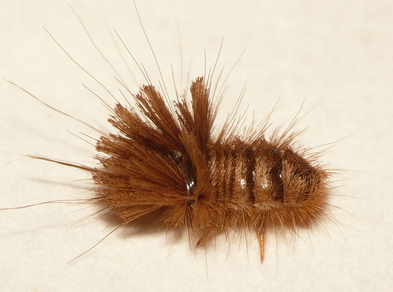 Ctesias serra, larva. Location: The Netherlands - Wageningen - Plasserwaard